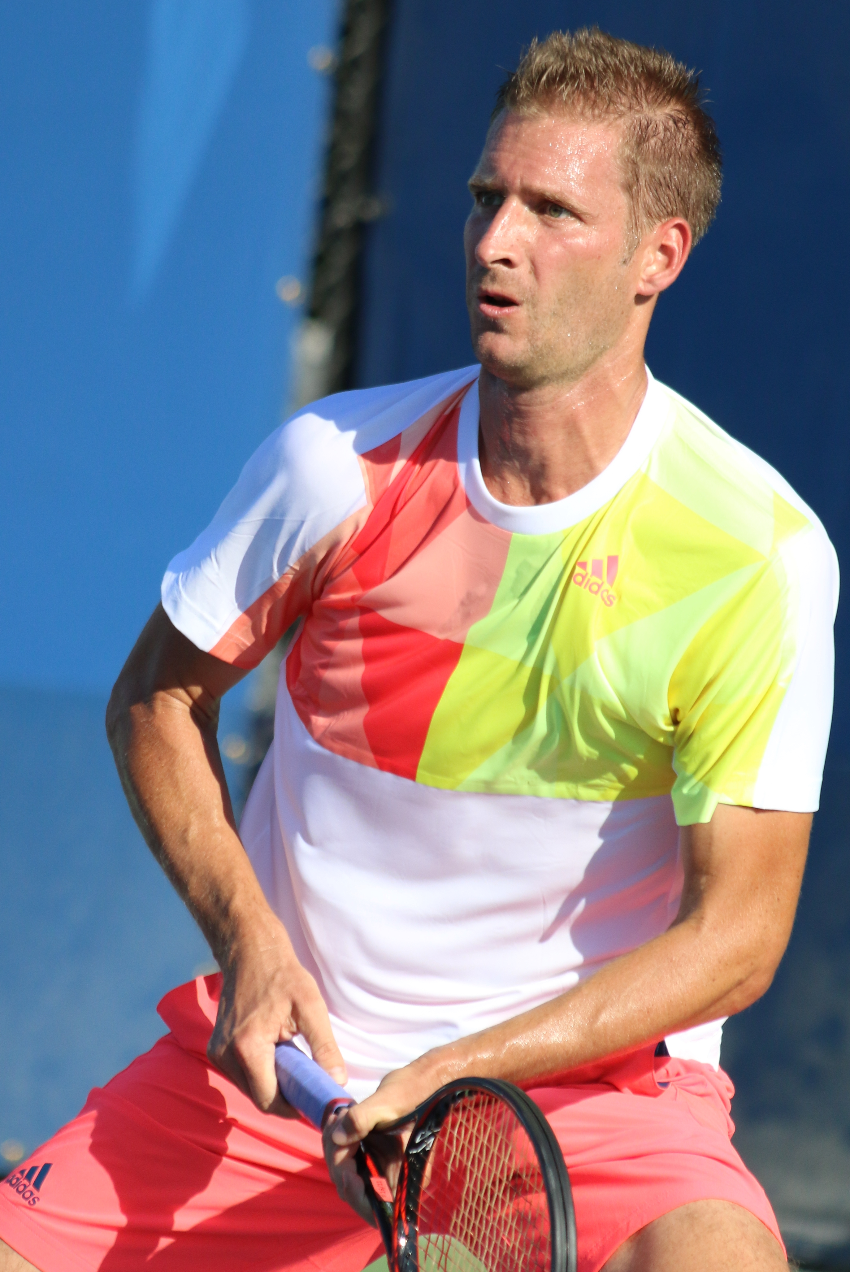 Mayer F. US16 (20)